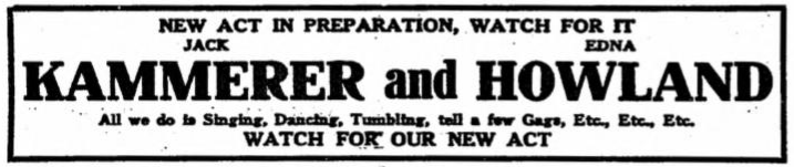 Jack Kammerer and Edna Howland advertise a new vaudeville act in The New York Clipper. September 5, 1917